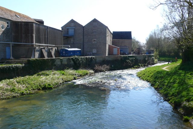 Palmers Brewery A view of the back of the brewery on the River Brit.